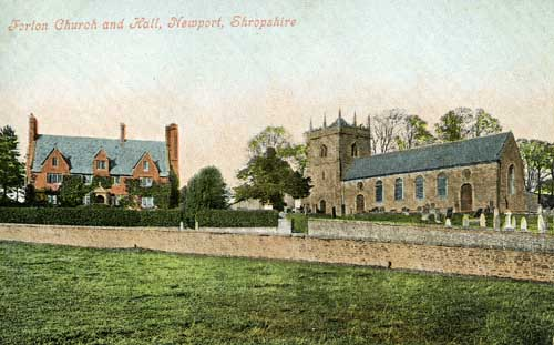 Image shows Forton Hall and All Saints church.